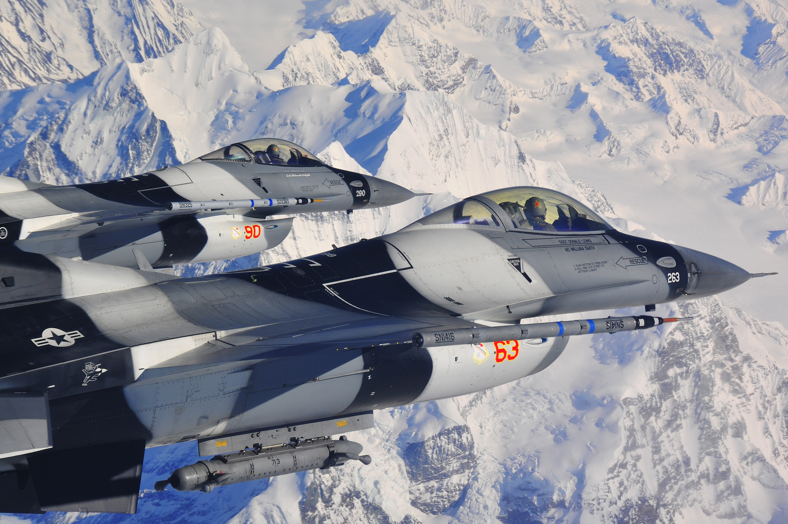 A pair of F-16 Fighting Falcon Aggressors fly over the Alaska Range during RED FLAG-Alaska 10-2, April 20, 2010, Eielson Air Force Base, Alaska. RF-A provides participants 67,000 square miles of airspace, more than 30 threat simulators, one conventional bombing range and two tactical bombing ranges containing more than 400 different types of targets. The F-16s are assigned to the 18th Aggressor Squadron.